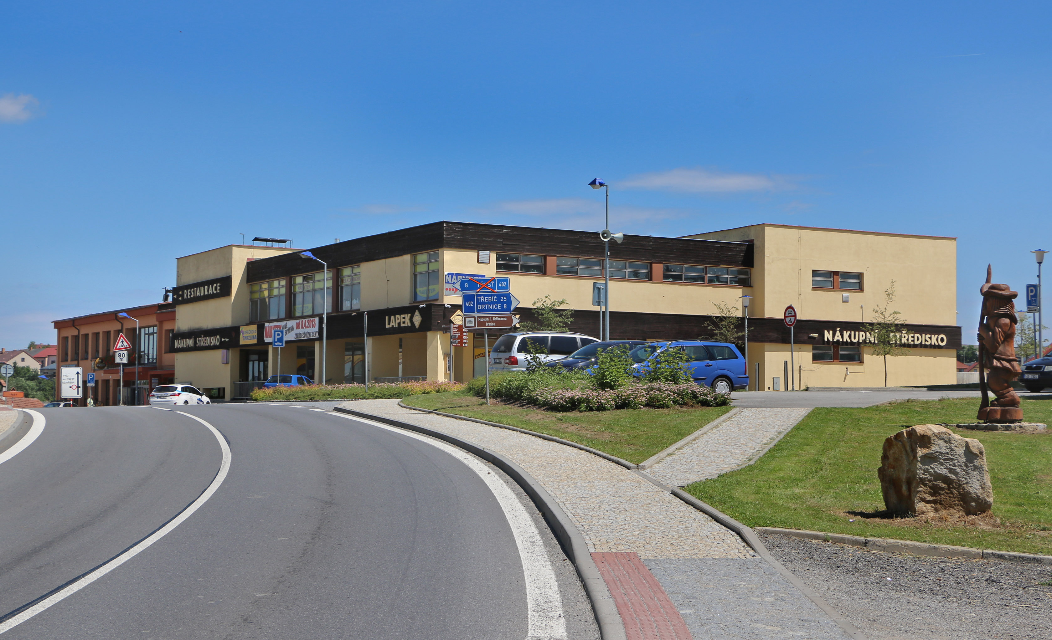 Shopping center in Stonařov, Czech Republic.